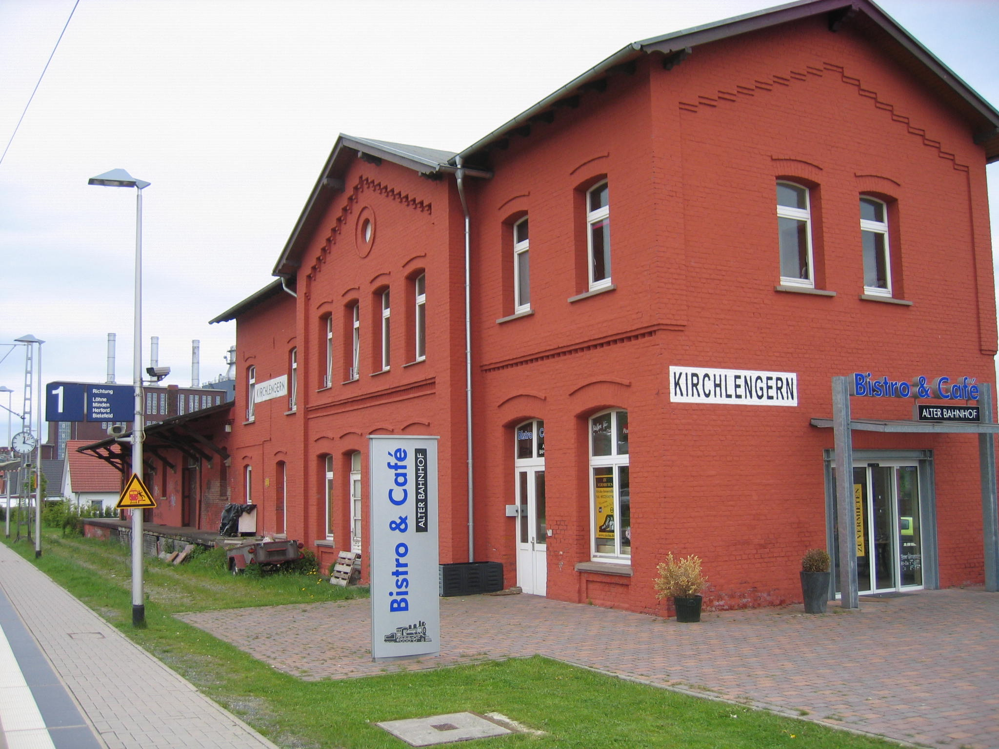 in Kirchlengern, District of Herford, North Rhine-Westphalia, Germany.